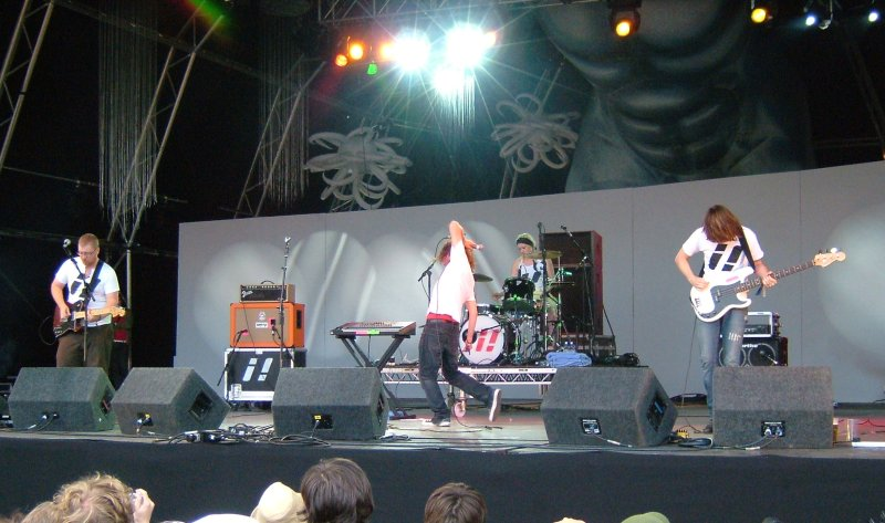 Forward Russia playing live at the Summer Sundae festival, Leicester, England, August 2006. Author: Mike Higgott